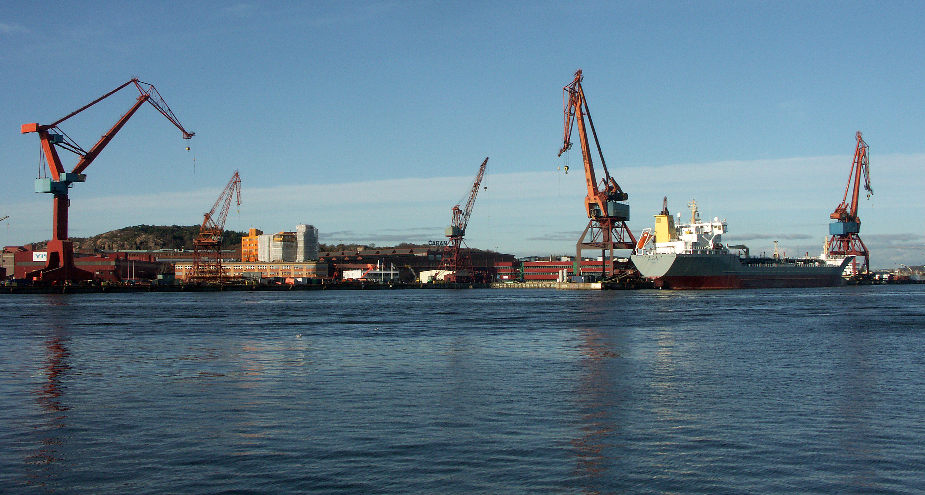 Northern shore of the river Göta älv in Gothenburg, Sweden